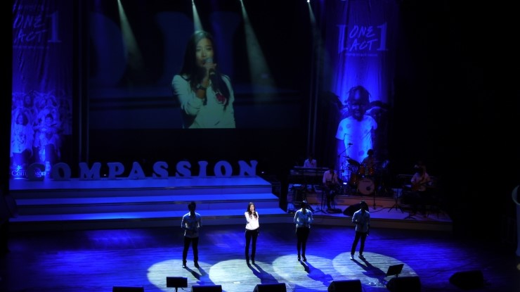 12.08.25 Korea CompassionBand ONE ACT Ecstatic confession Ms Hwang Bo